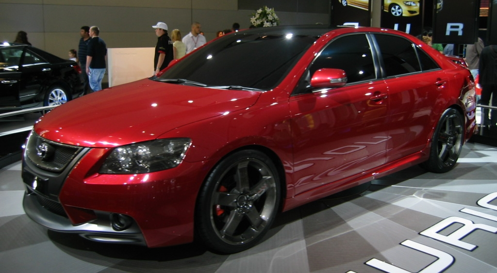 2006 Toyota Aurion Sports Concept.